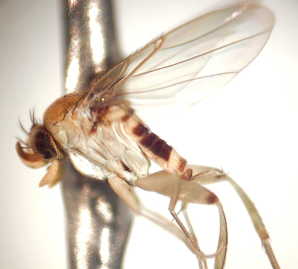 Apocephalus(Mesophora) longistylus, male